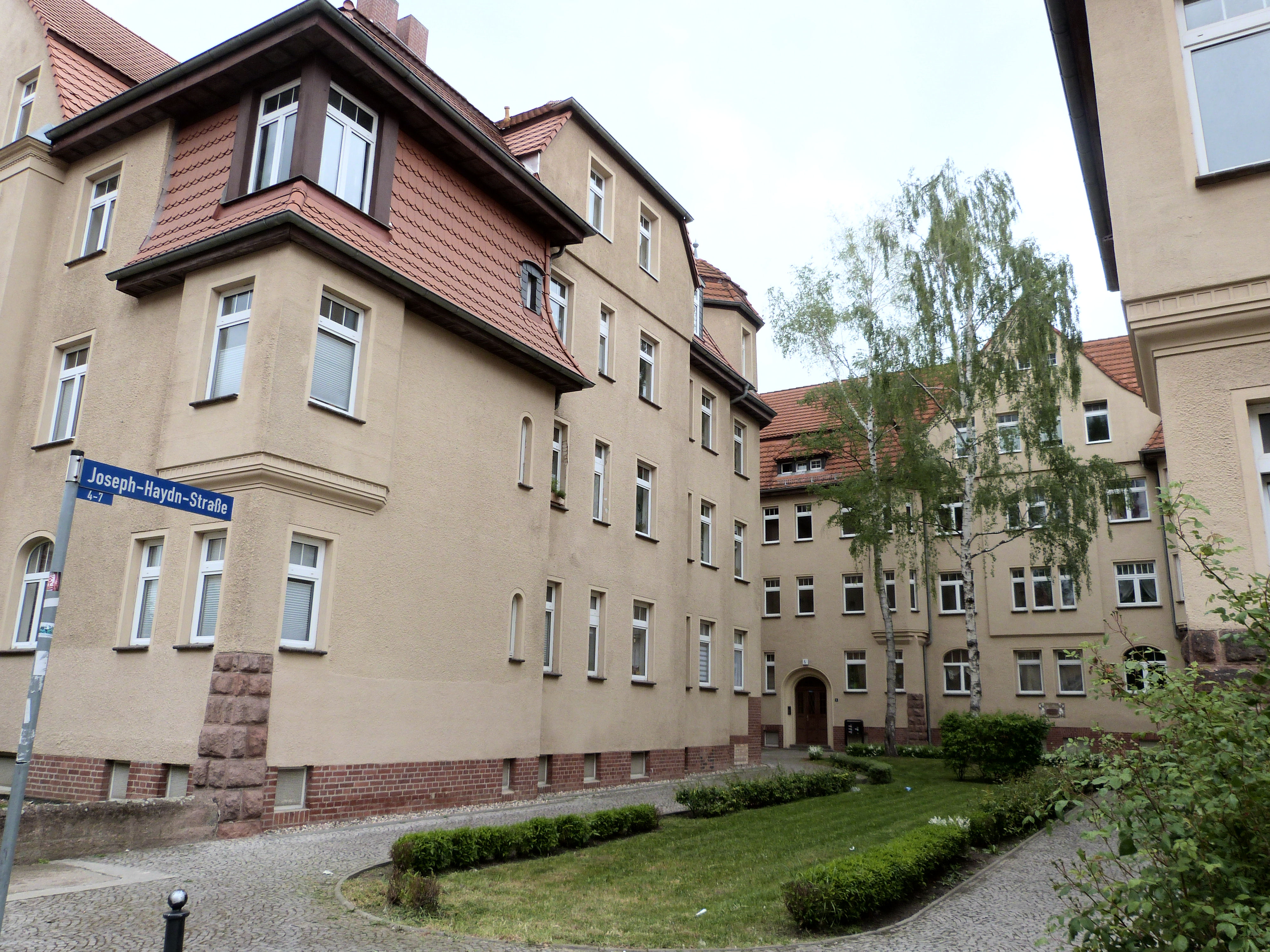 Street Joseph-Haydn-Strasse in Halle (Saale)